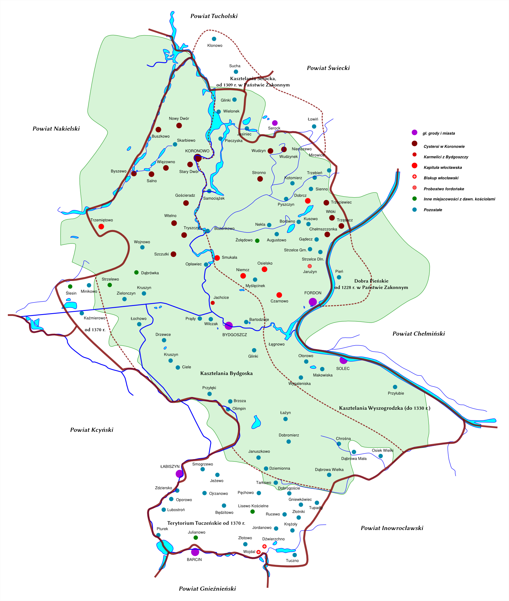 Historic territory of Bydgoszcz county XIV s. - 1772.